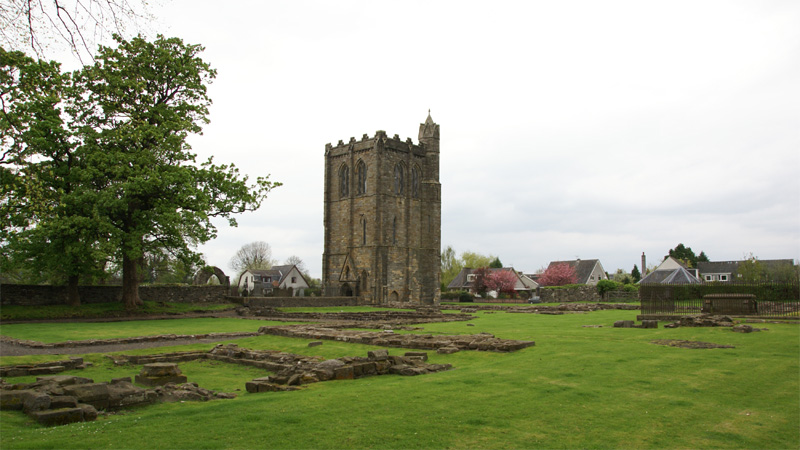 Cambuskenneth Abbey, Stirling, Scotland